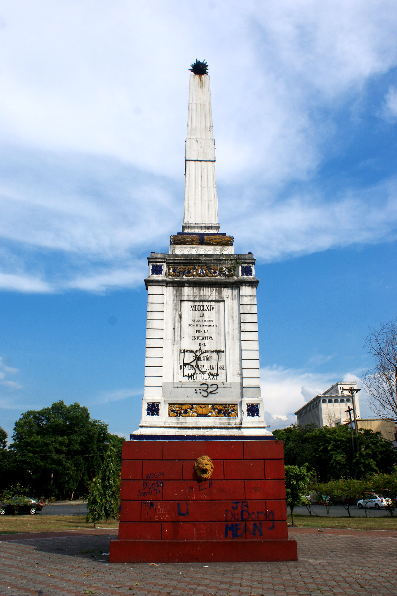 A view of the front of the monument taken from the northwest side facing M. Roxas Jr. Bridge.